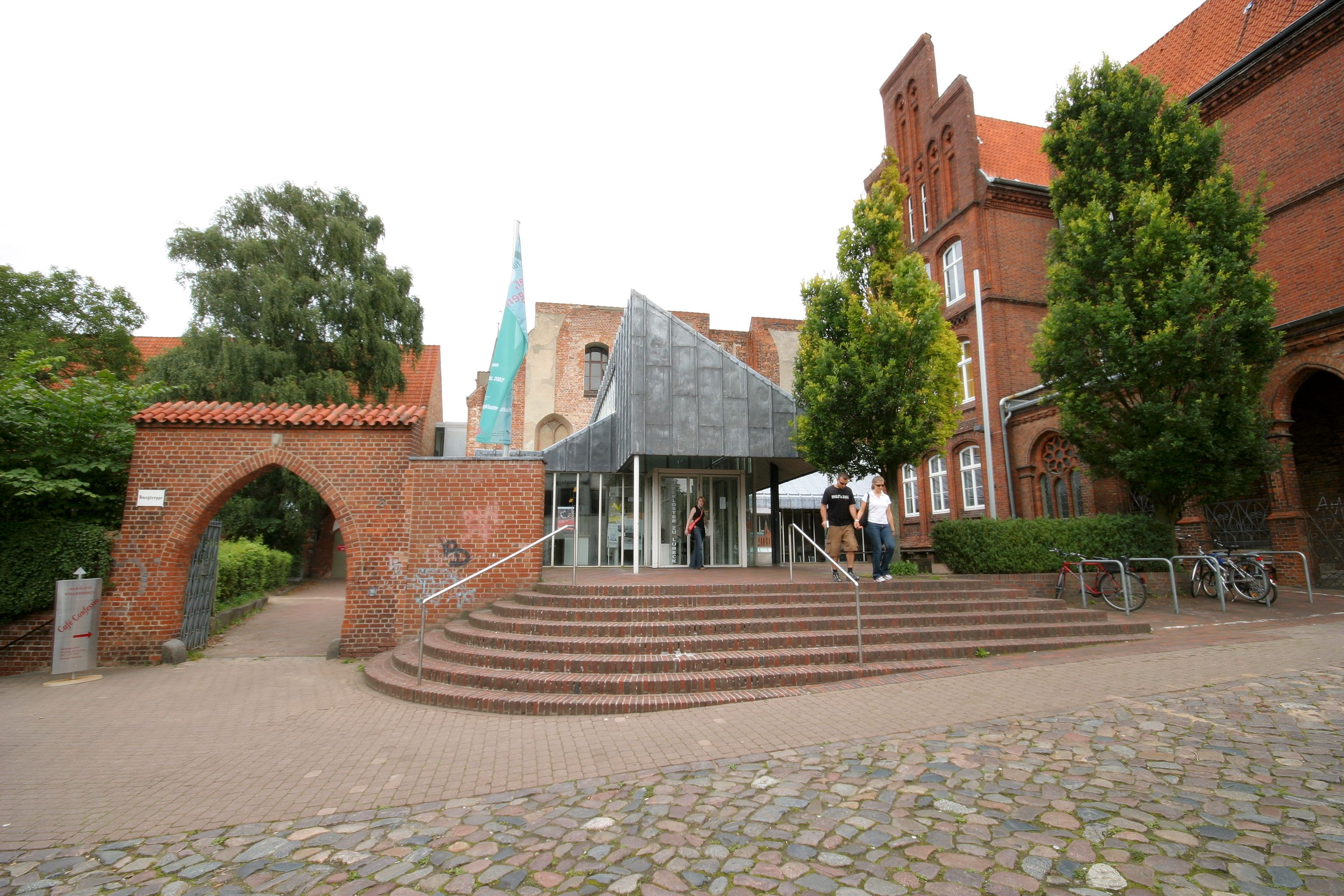 Entrance of Culture Forum Castle Monastery Luebeck, Germany